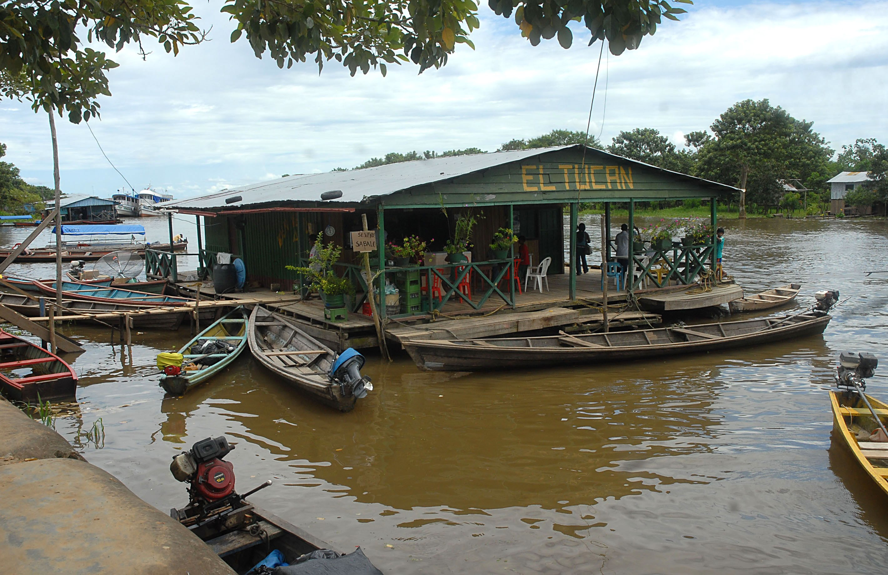 Port of Leticia, Amazonas, Colombia